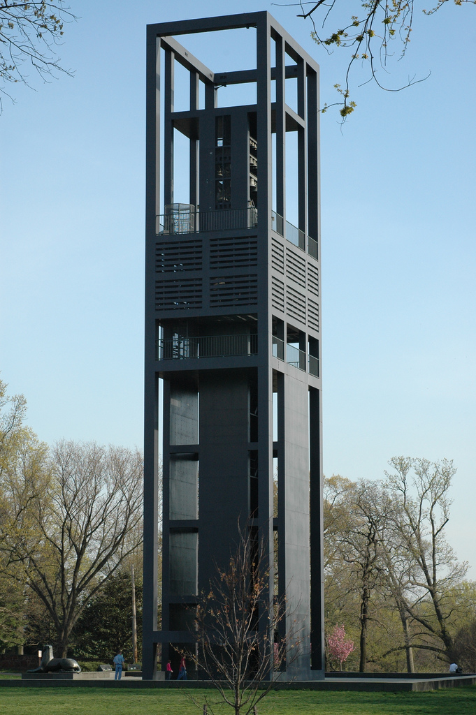 Photo of Netherlands Carillon at Arlington National Cemetery